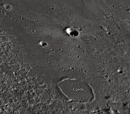 Egede lunar crater as seen from Earth with satellite craters labeled